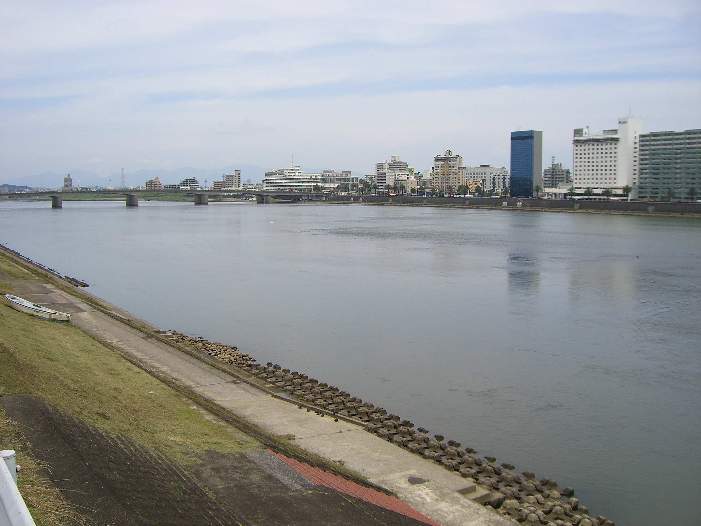 Ooyodogawa-river runs through Miyazaki city in Japan. (宮崎市市内を流れる大淀川。)